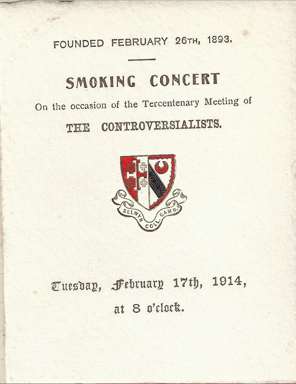 SelwynCollegeSecretSociety0187